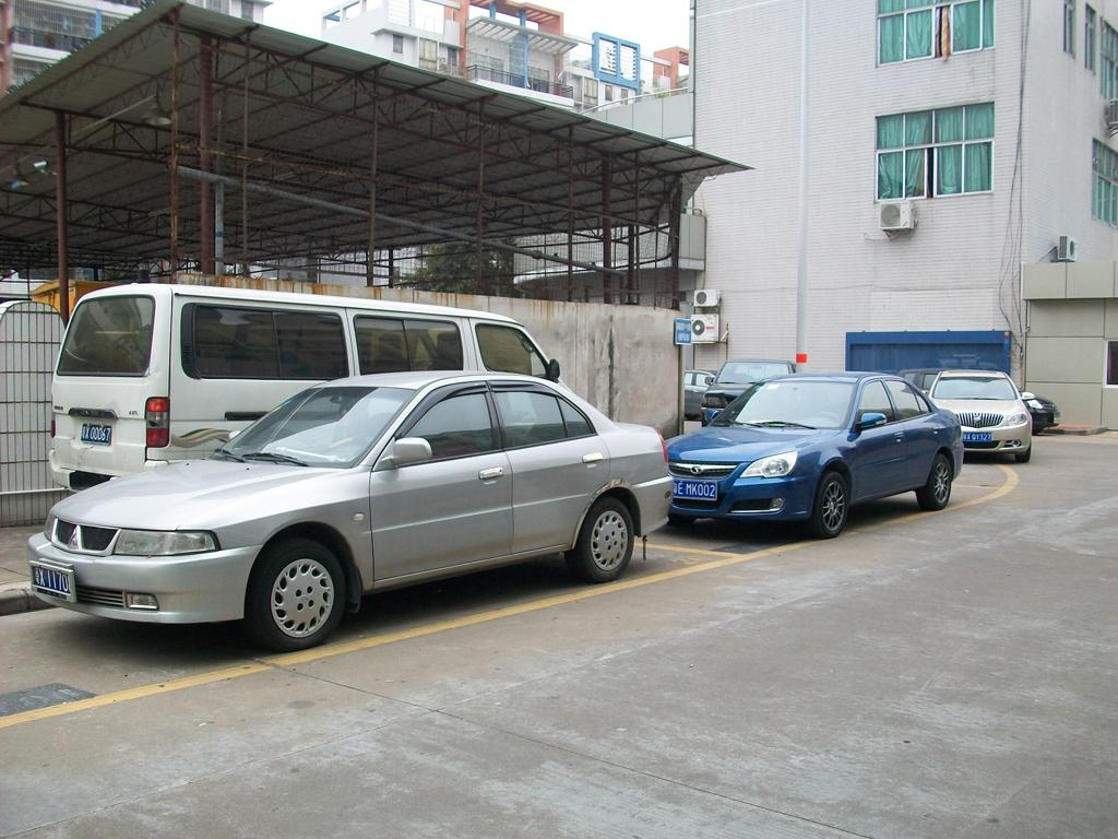 Comparation of lingshuai & lingyue